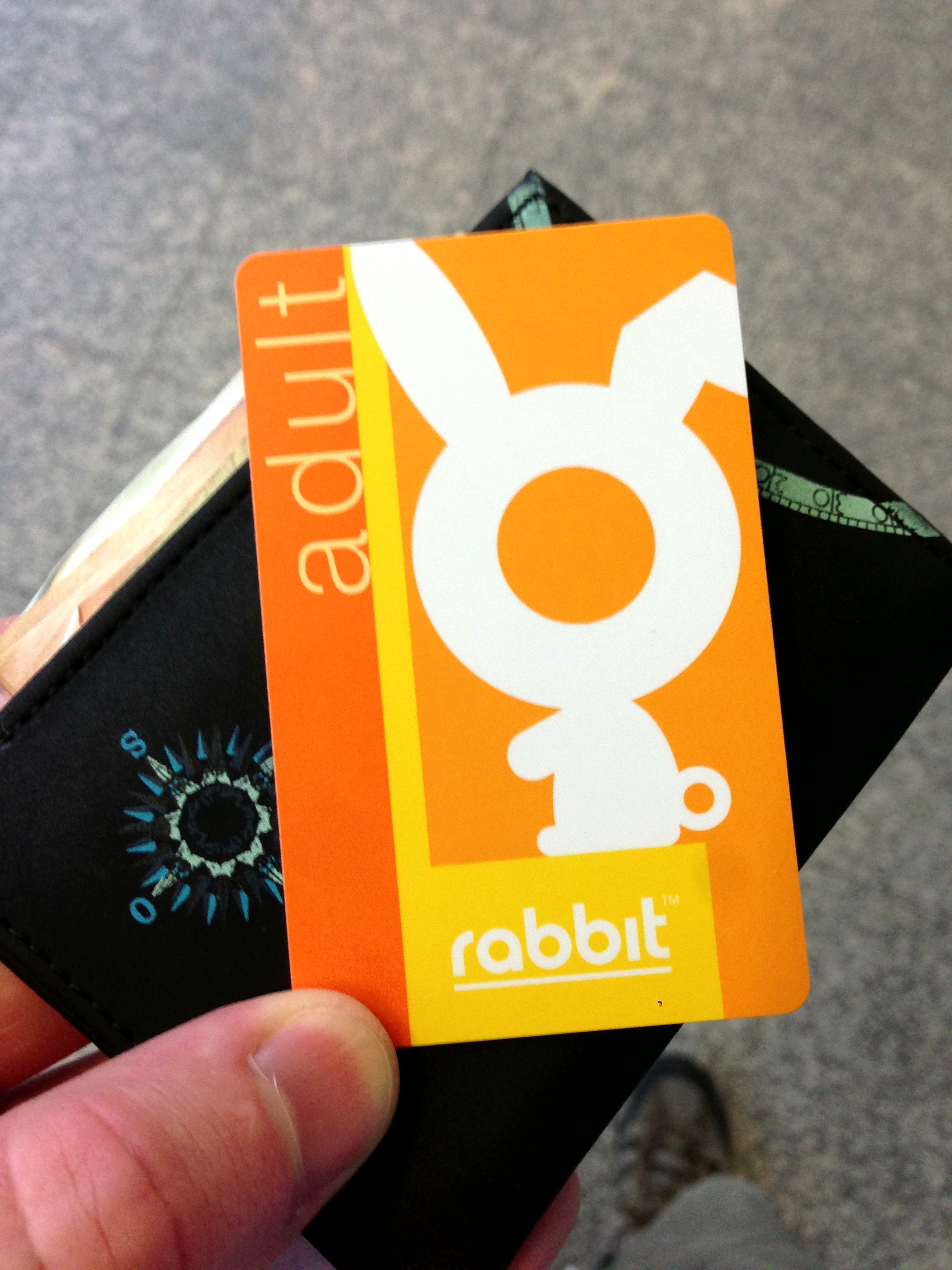 This is a picture of an Adult Rabbit Card, which is the standard card type of the Rabbit Card. This is a new system introduced in Bangkok in 2012.